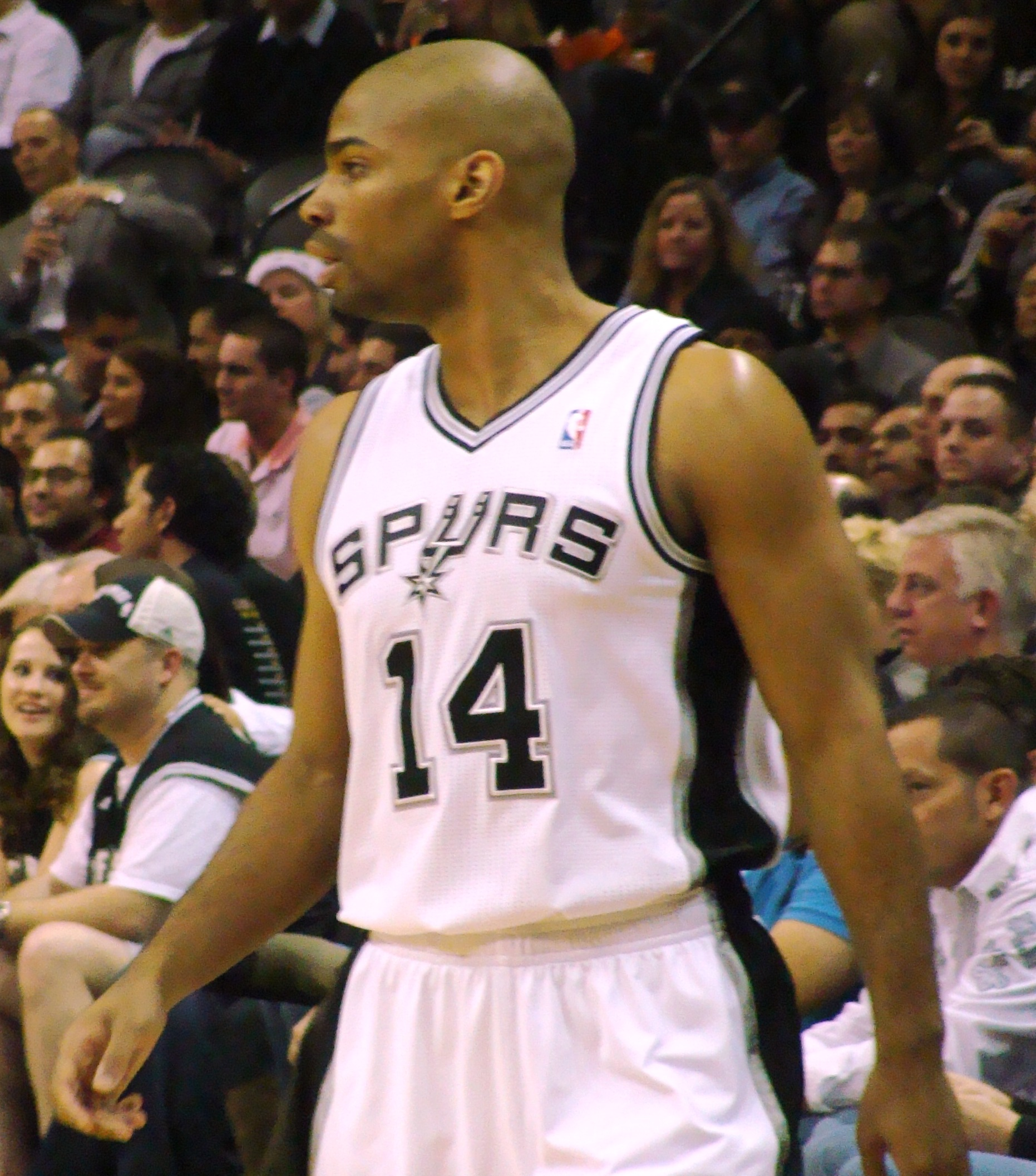 Gary Neal of the San Antonio Spurs, during the Spurs-Nuggets match on 12-22-2010 in San Antonio, TX.